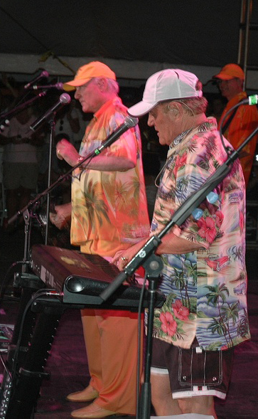 Beach Boys on the Coca Cola Stage, City Stages 2006